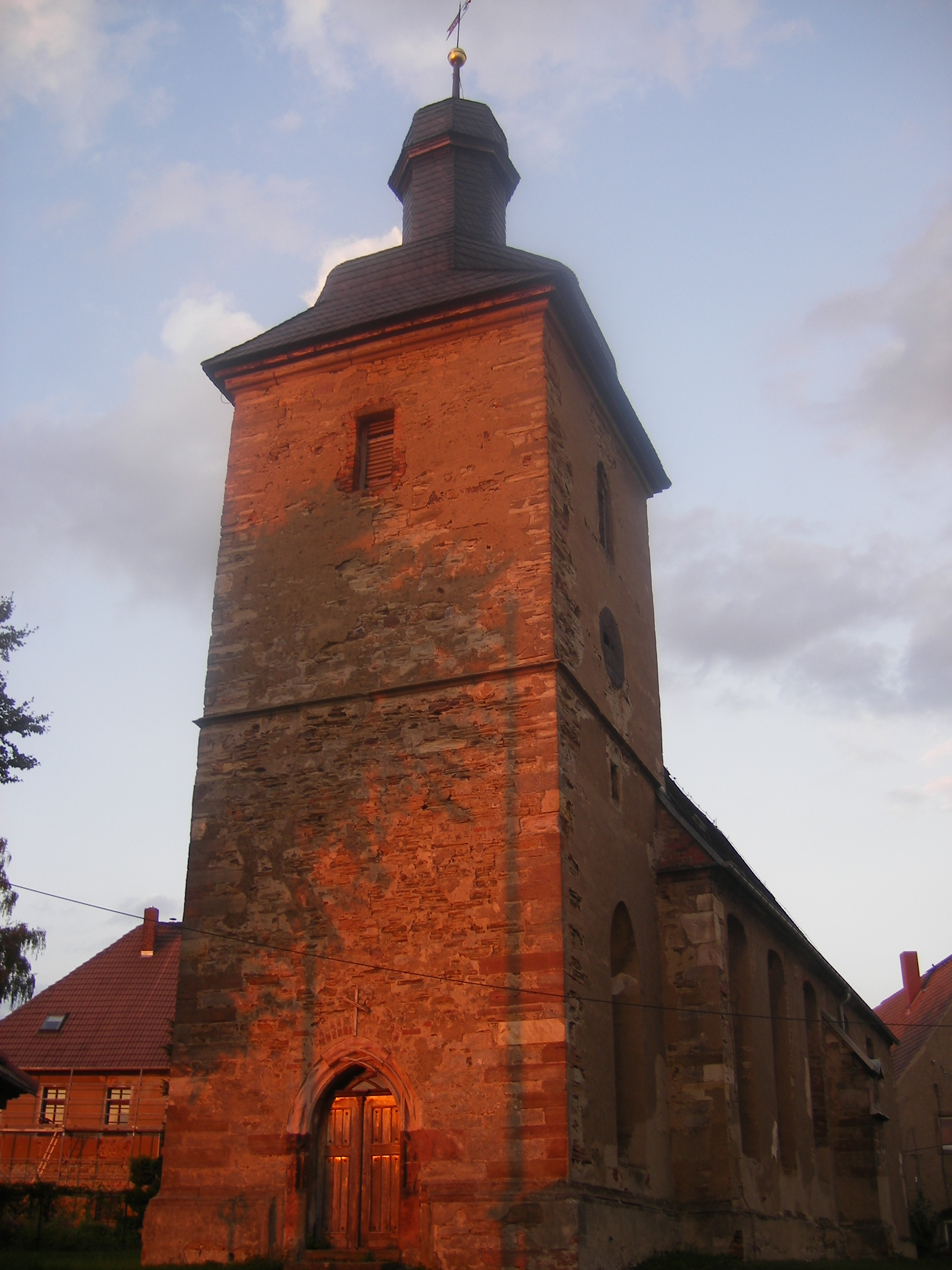 Church in Gödern near Altenburg/Thuringia